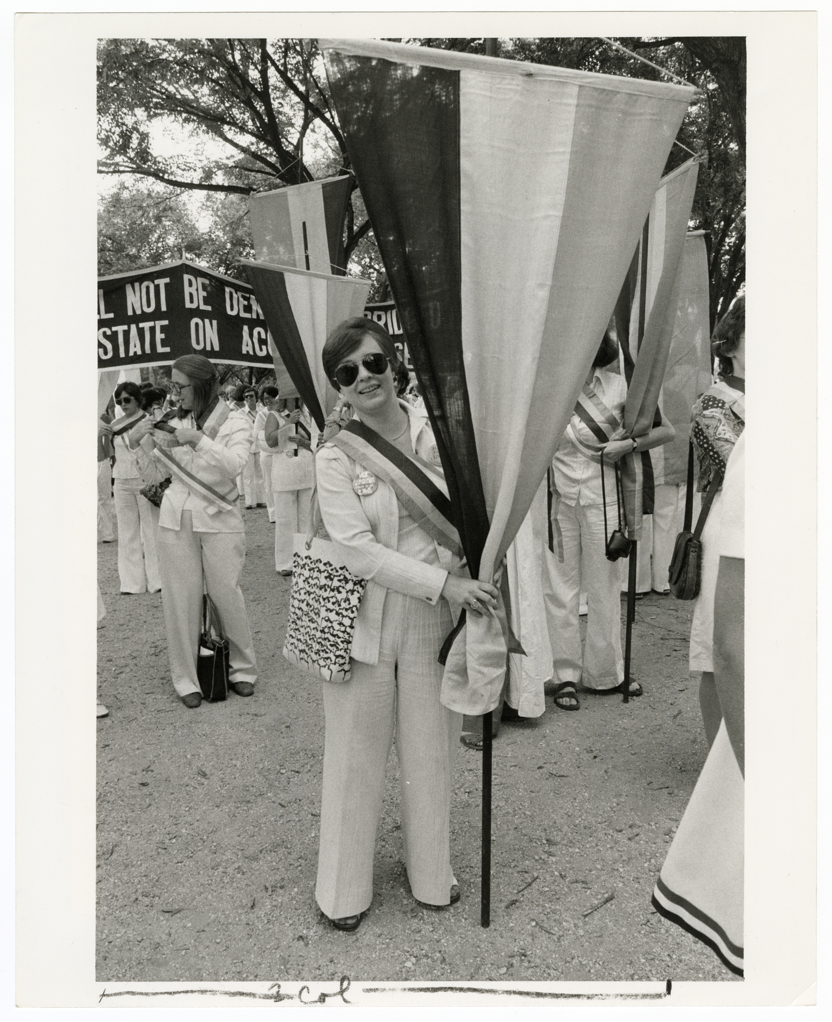 Edith Mayo, assistant curator in the Division of Political History at the National Museum of History and Technology, now known as the National Museum of American History, holds a banner from the 1913 Woman Suffrage Procession brought by the National Woman's Party, August 26, 1977. The march was held to commemorate the life and work of Alice Paul, who successfully campaigned for women's suffrage in 1917-1918 and played a major role in the adoption of the Nineteenth Amendment (19th Amendment or Amendment XIX) to the United States Constitution which prohibits the states and the federal government from denying the right to vote to citizens of the United States on the basis of sex. From 10" x 8" black and white print.